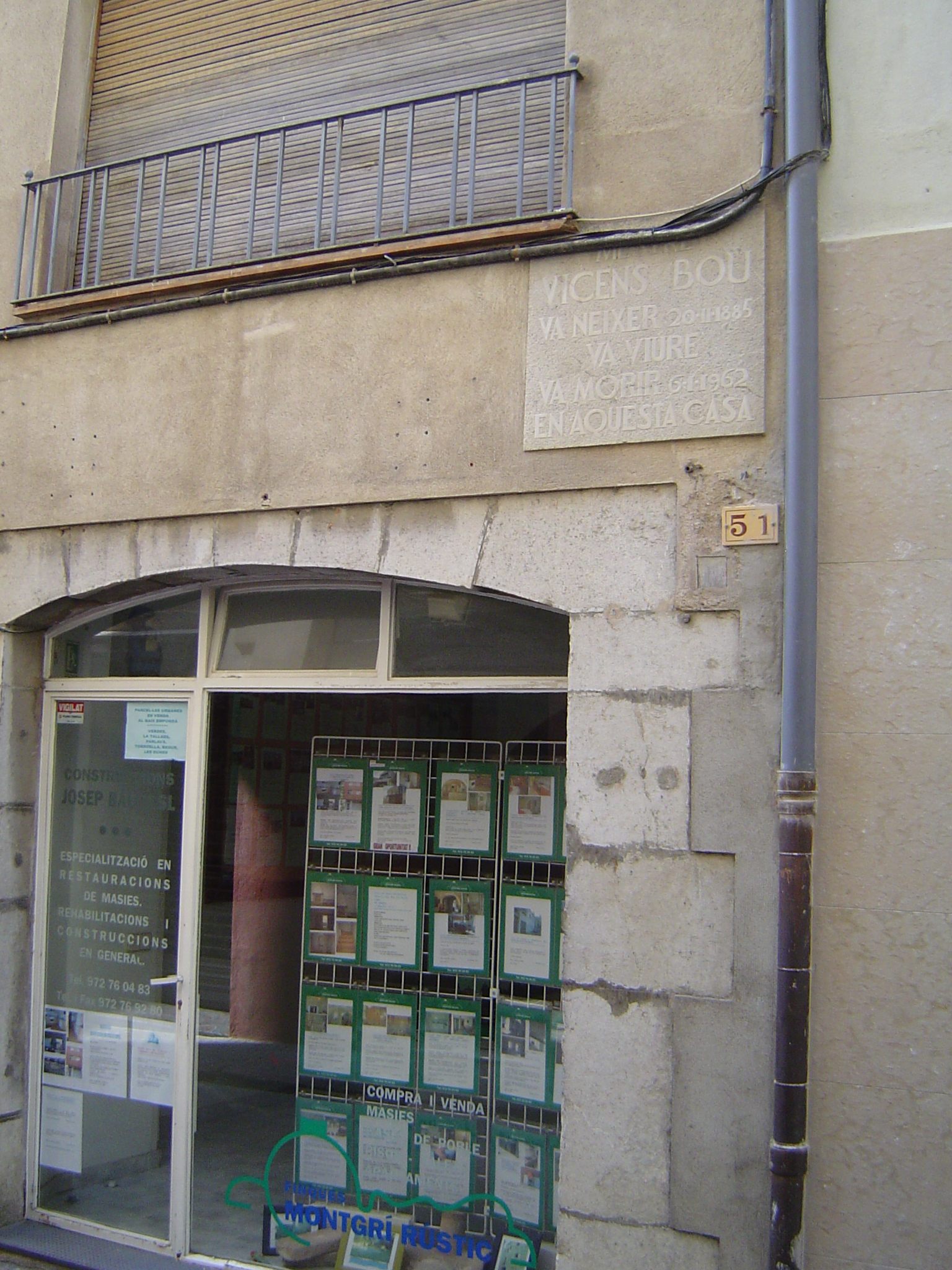 Birthplace of Vicens Bou (composer of sardanas) in Torroella de Montgrí, Baix Empordà